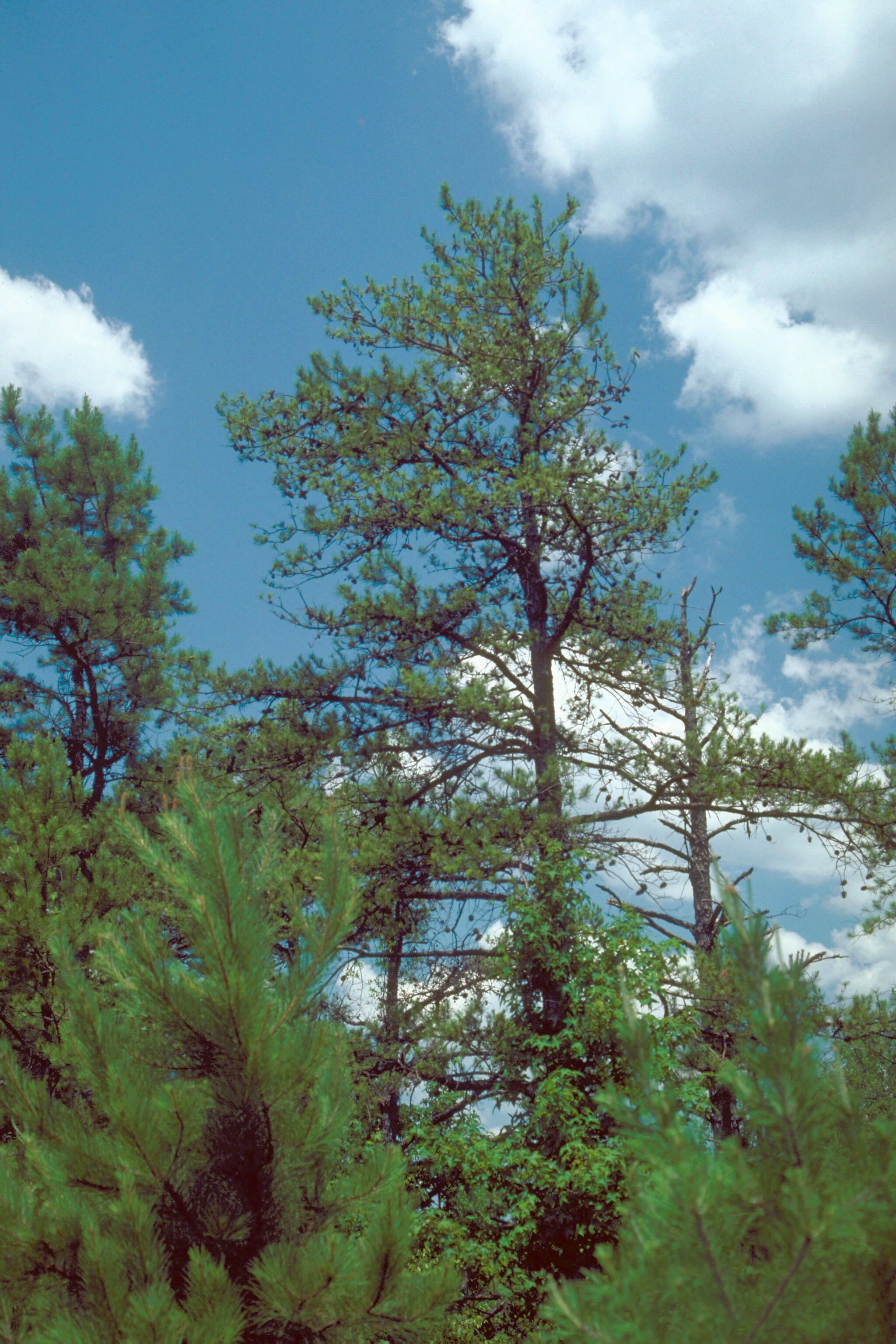 Pinus echinata with early symptoms of Phytophthora cinnamomi root disease. South Carolina, USA.